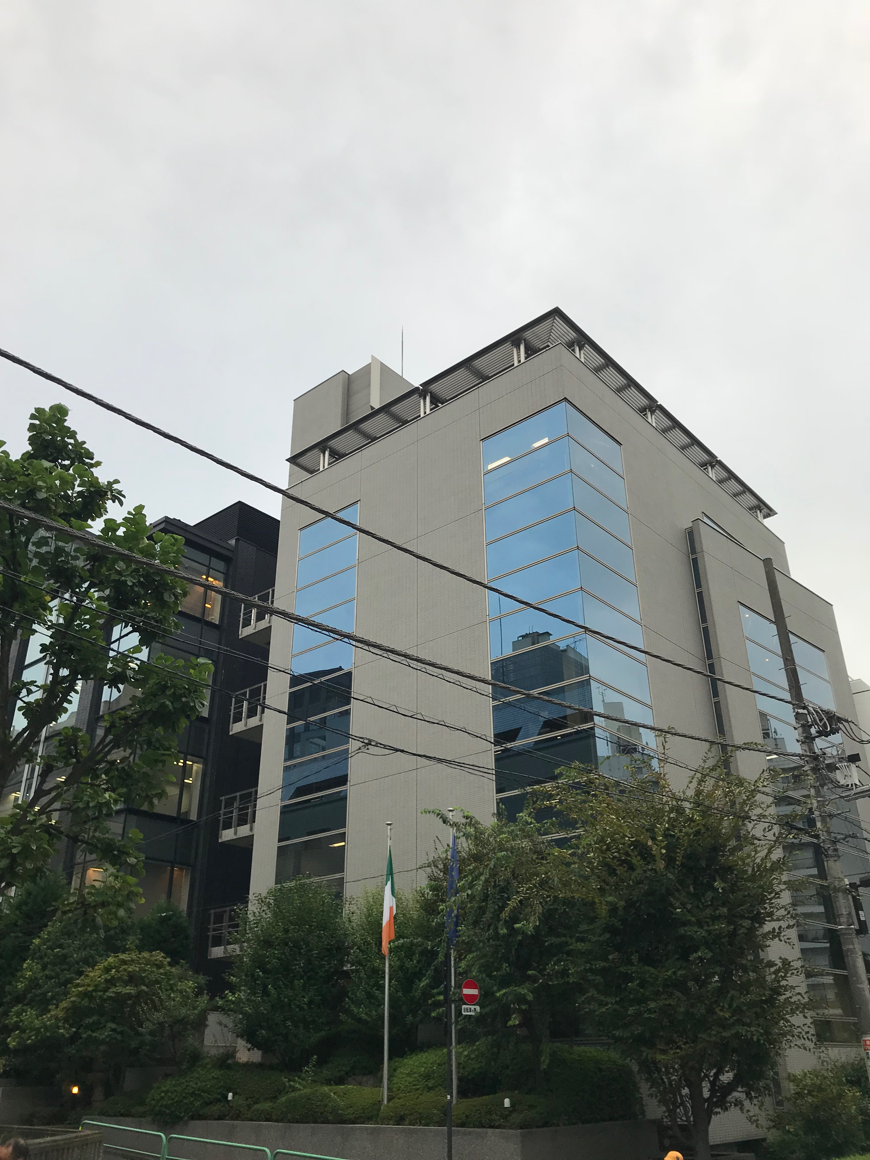 Embassy of the Republic of Ireland in Tokyo